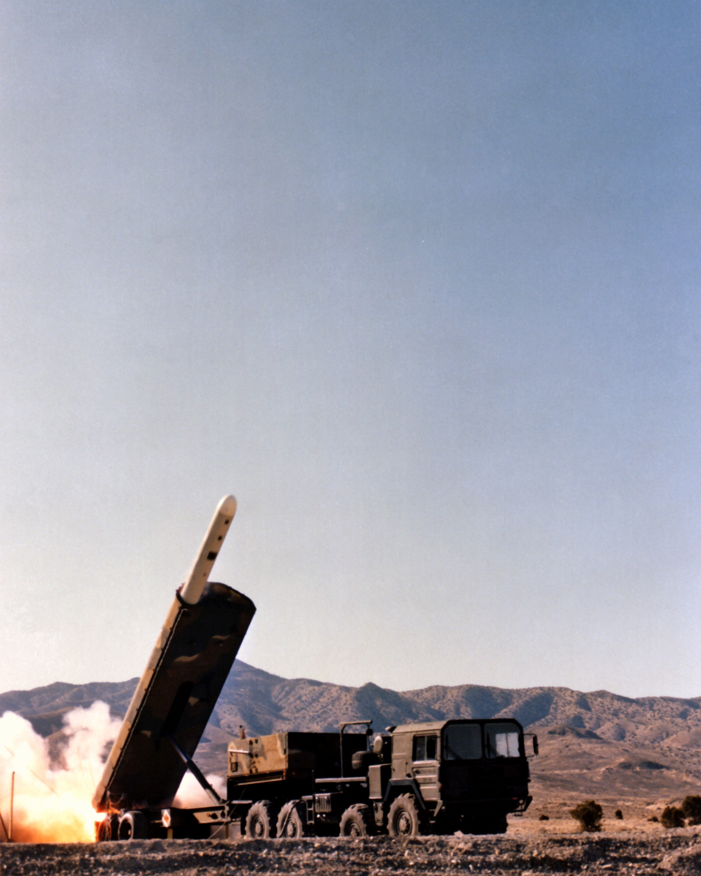 A launching unit for BGM-109G Gryphon missiles during a launch test